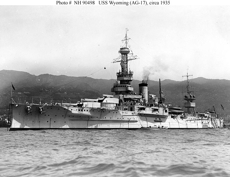 American battleship USS Wyoming (BB-32) in 1935